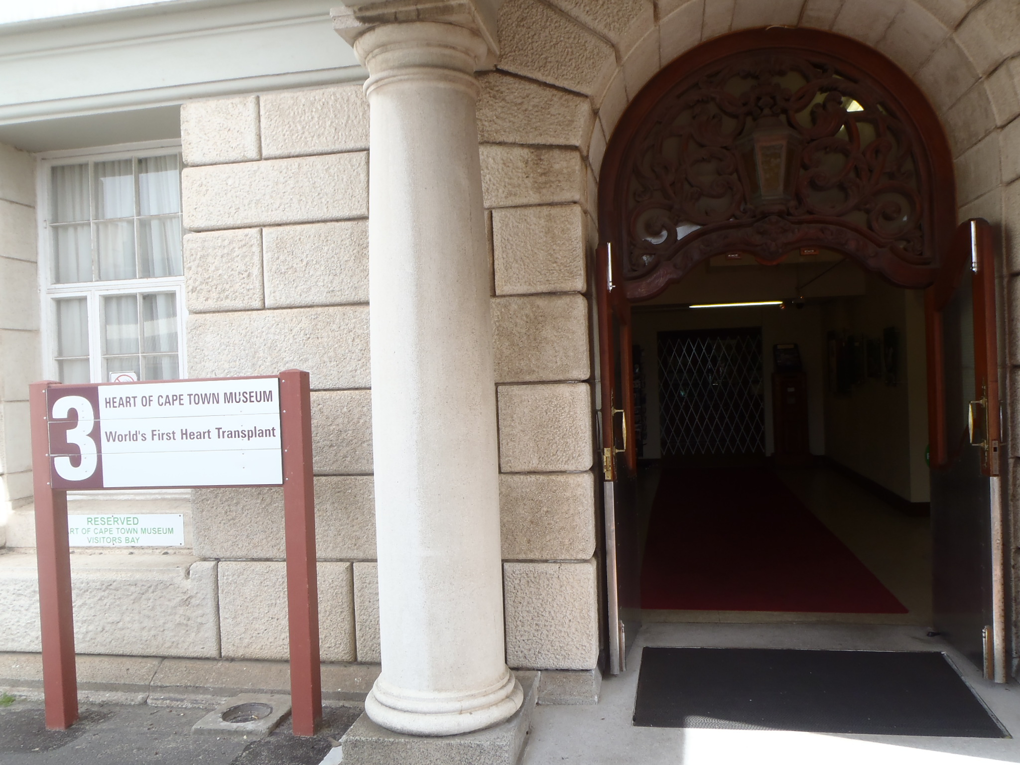 The old hospital building in Cape Town where the first human heart transplant was done by Dr Barnard